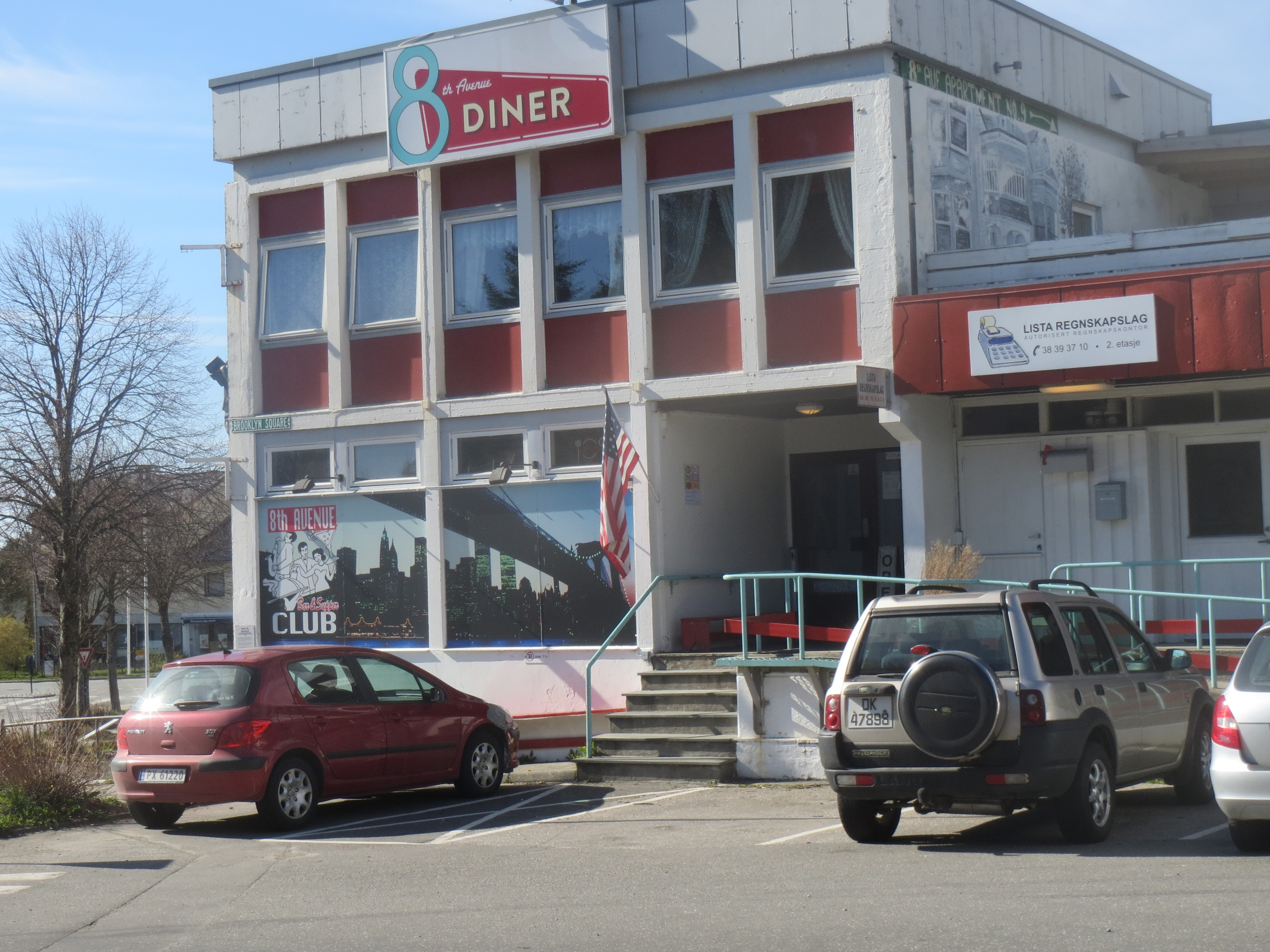 Brooklyn Square, in Vanse (Lista), Norway: Dining